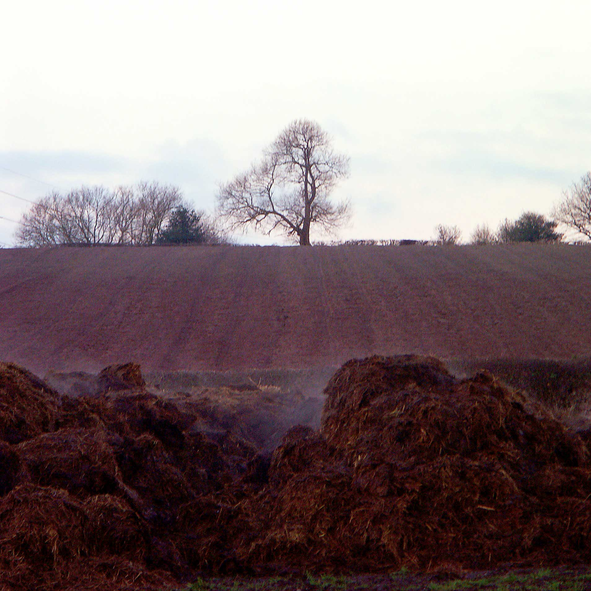 Manure in Repton, Derbyshire. – (Original note: "Pile of poo over Repton. It's funny how you get to know these things but there has been manure here for generations the snakes use it to incubate thier eggs. Smartarse or what!")